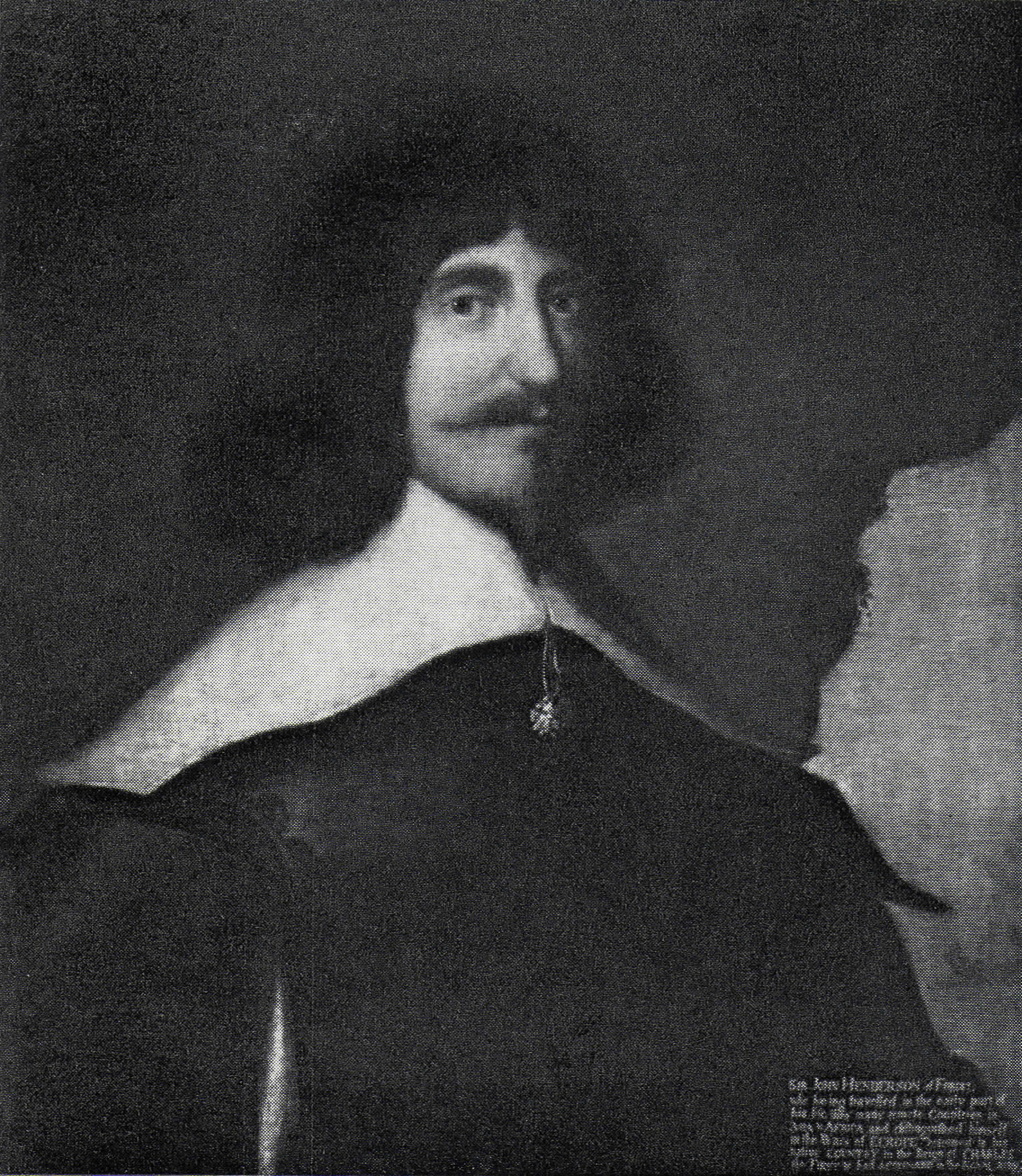 "John Henderson of Fordell", painted by George Jamesone likely c. 1635-37. Later inscribed in lower right: "SIR JOHN HENDERSON of FORDEL who having travelled in the early part of his life thro' many remote Countries in ASIA & AFRICA and distinguished himself in the Wars of EUROPE returned to his native COUNTRY in the Reign of CHARLES the FIRST & had a COMMAND in the ROYAL army." Formerly displayed in Scottish National Portrait Gallery. Canvas: 25 x 22 3/4 in.